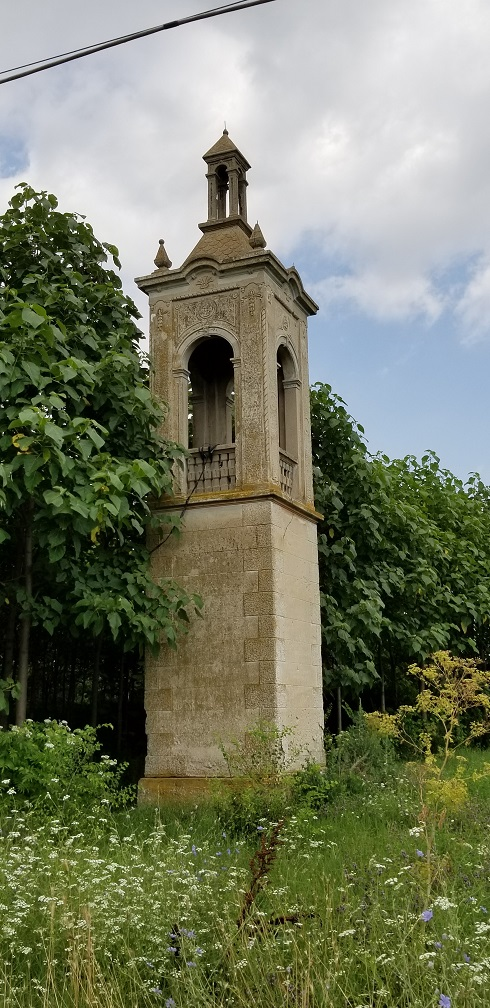 The tower of an old church in Rakovski